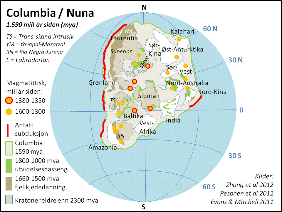 Paleogeographic globe in the Norwegian løanguage, made for Wikipedia use at PowerPoint software.